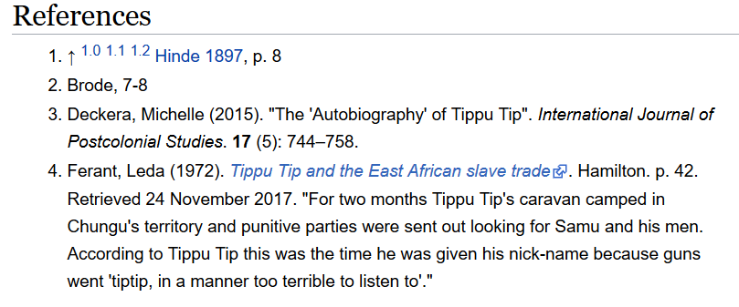 screenshot of footnotes / endnotes at the end of enwiki article on Tippi Tipp, showing different ways of having such a note Kiswahili: picha ya tanbihi chini ya makala ya enwiki "Tippu Tipp" zonazoonyesha maelezo kuhusu matamko katika matini mfululizo wa makala. Tanbihi ziko za aina mbalimbali, ama kama kiunganishi (link) kwa tovuti nyingine nje ya wikipedia au kwa kutaja makala au kitabu pamoja na habari zake (mwandishi, tarehe, makala katika jarida gani, na kadhalika)